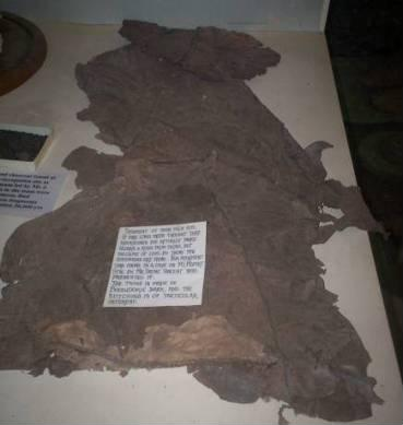 Handcrafted aboriginal artifact found in cave on Mt Moffatt Station, near Roma Qld. On display at Miles & District Historical Village. The twine is made of boodioorie bark and the stitching is particularly unusual.